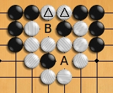 While black can't play at A, he can play at B and kill the stones marked with triangle